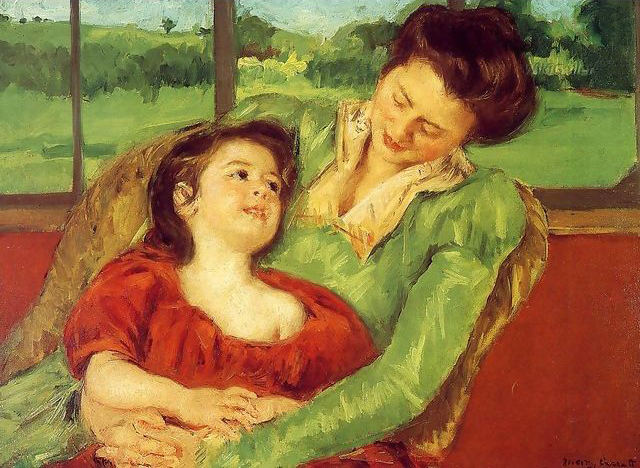 Mary Cassatt (1845–1926) exhibited a painting entitled Mère et enfant, 1903, in Oil, at the 1913 Armory Show. It was listed for sale at the show from New York 493, Gallery O, Durand-Ruel & Sons, $4,950 It has more recently been identified by the title Reine Lefebre and Margot before a Window (1902). Mary Cassatt: A Catalogue Raisonné of the Oils, Pastels, Watercolors, and Drawings, Washington: Smithsonian Institution Press, 1970 (164) identifies this painting as the one Cassatt exhibited for sale at the Armory Show in 1913.